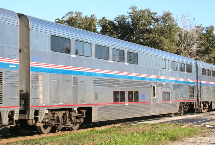 Auto Train lounge car converted from Superliner I dining car, seen in January 2006, just north of Sanford, FL.